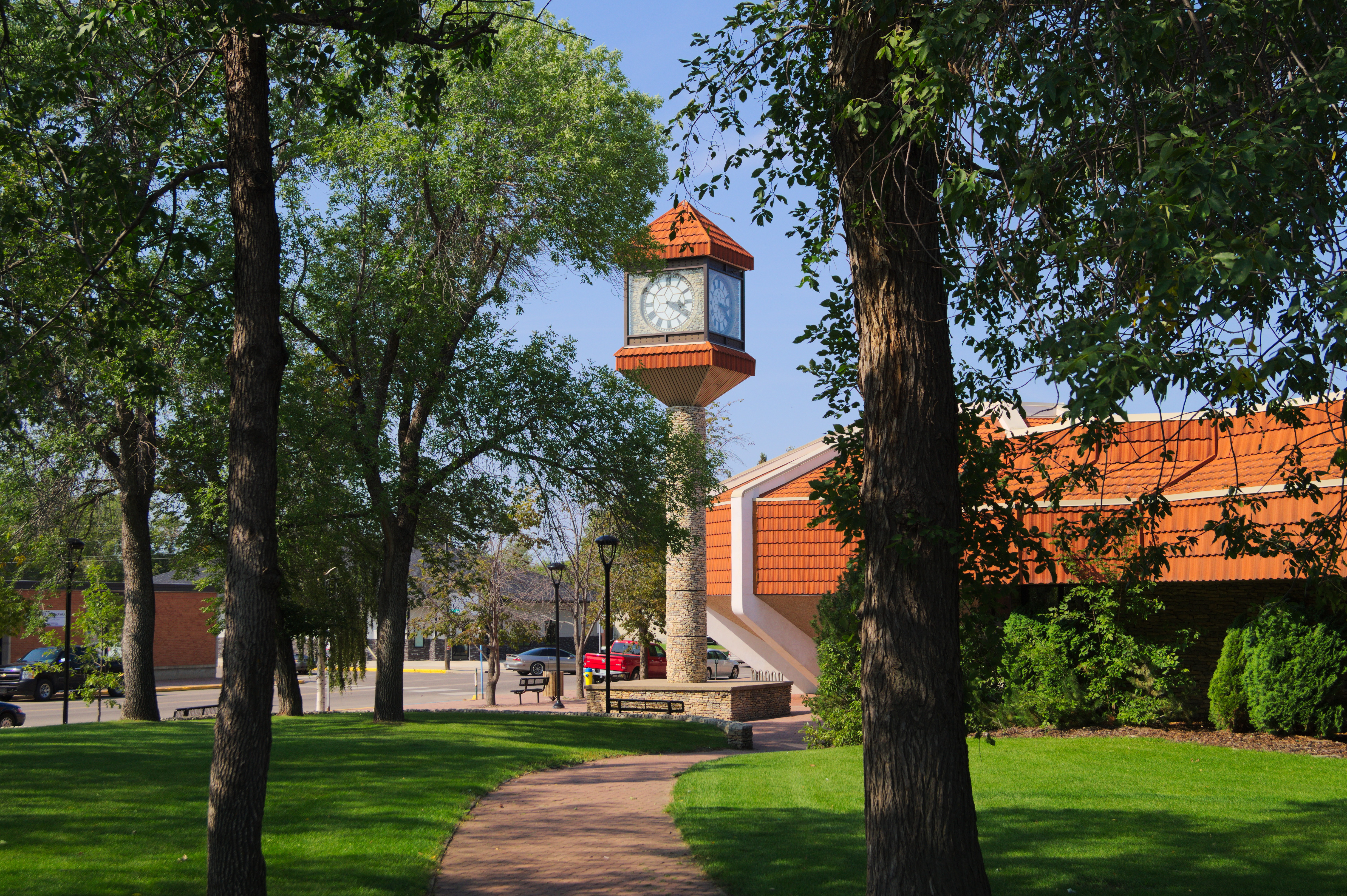 The City of North Battleford Public Library clock as seen from Central Park